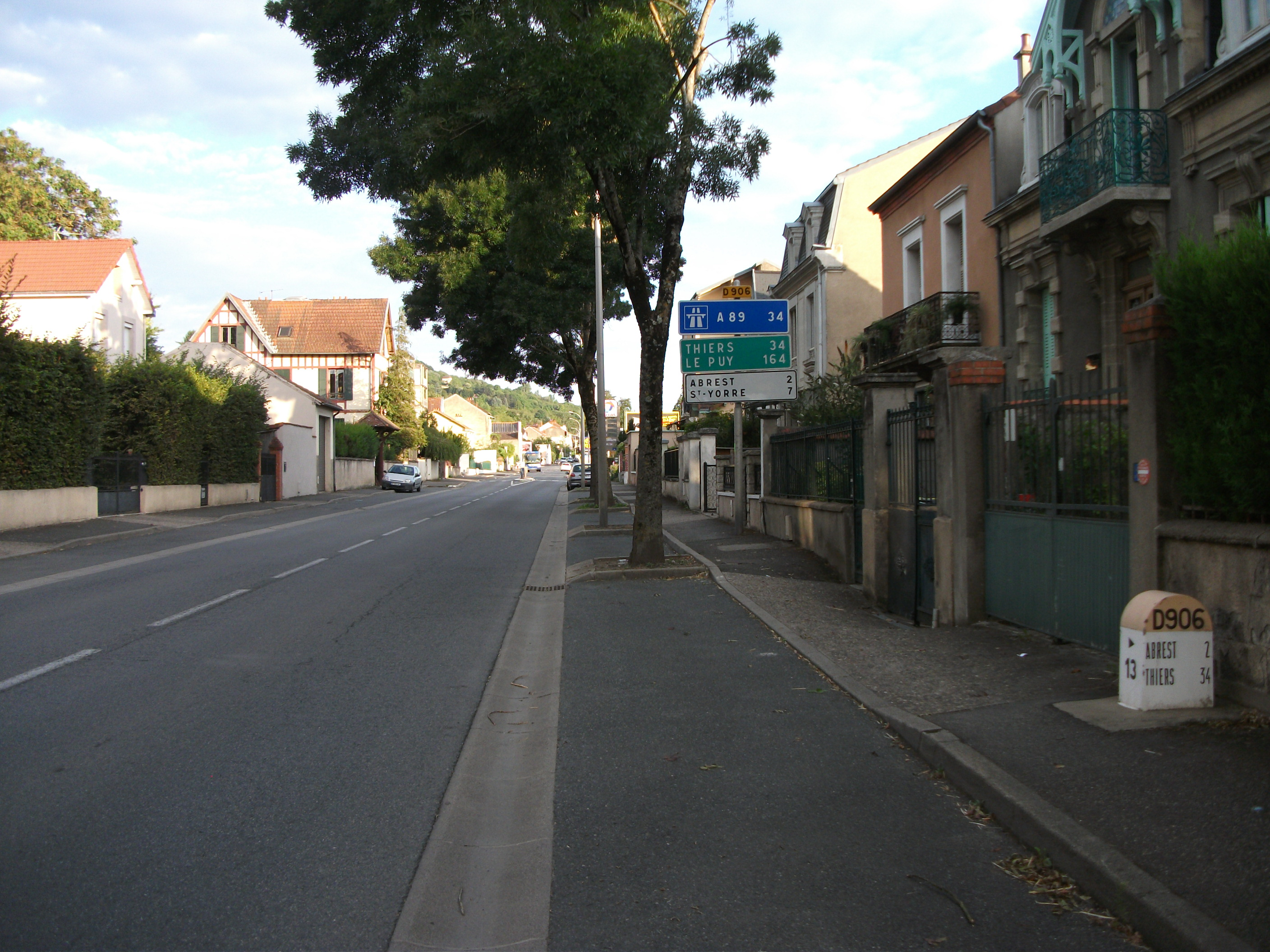 Departmental road 906 towards Thiers - Le Puy / Abrest - Saint-Yorre. Signs (except A 89: 2008) made in 1986 [8691]